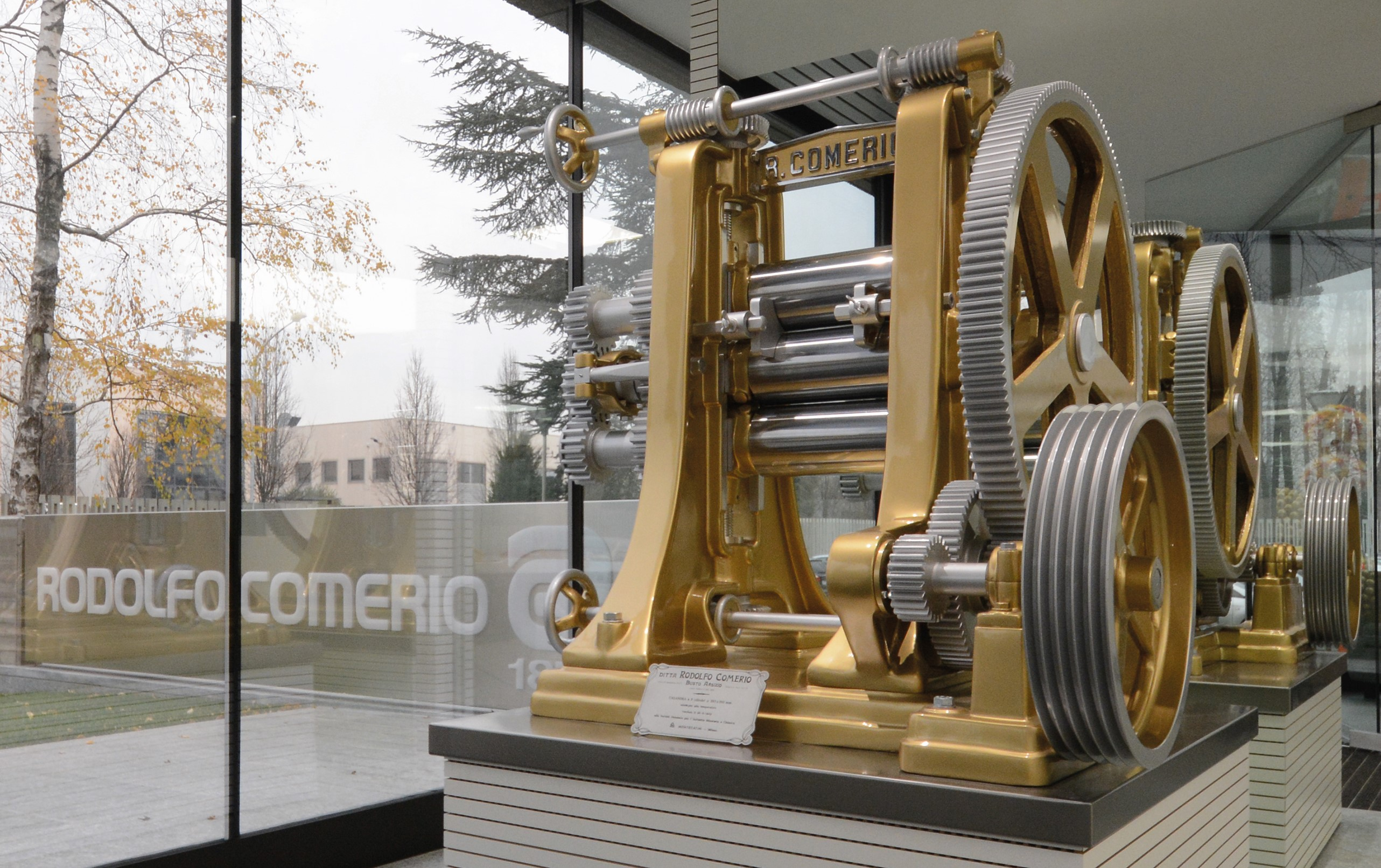 First calender for PVC manufactured by Rodolfo Comerio for Gruppo Montecatini in 1942, showcased at the entrance of Rodolfo Comerio company in Solbiate Olona